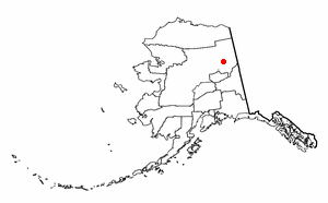 Adapted from Wikipedia's AK borough maps by Seth Ilys.